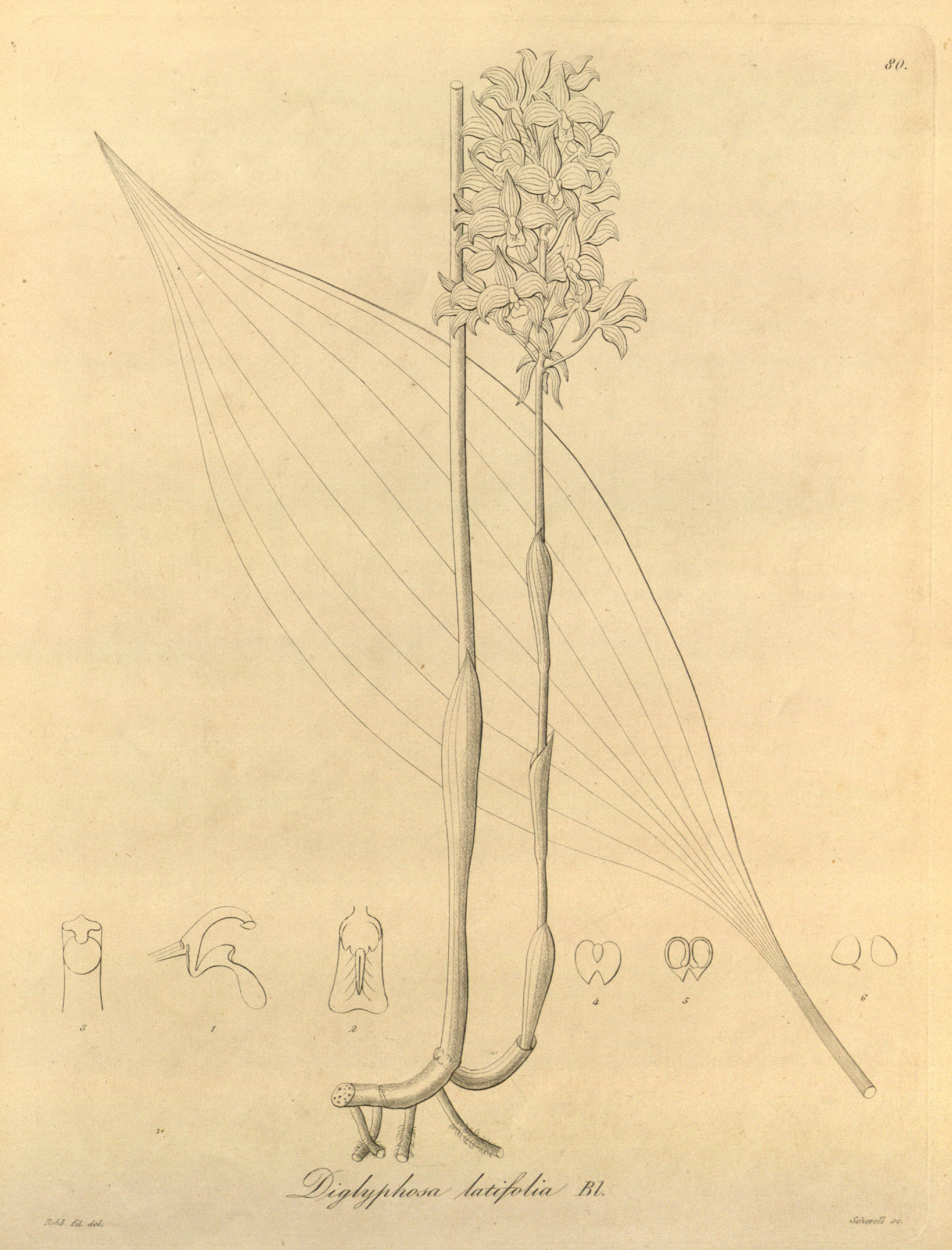 Illustration of Diglyphosa latifolia